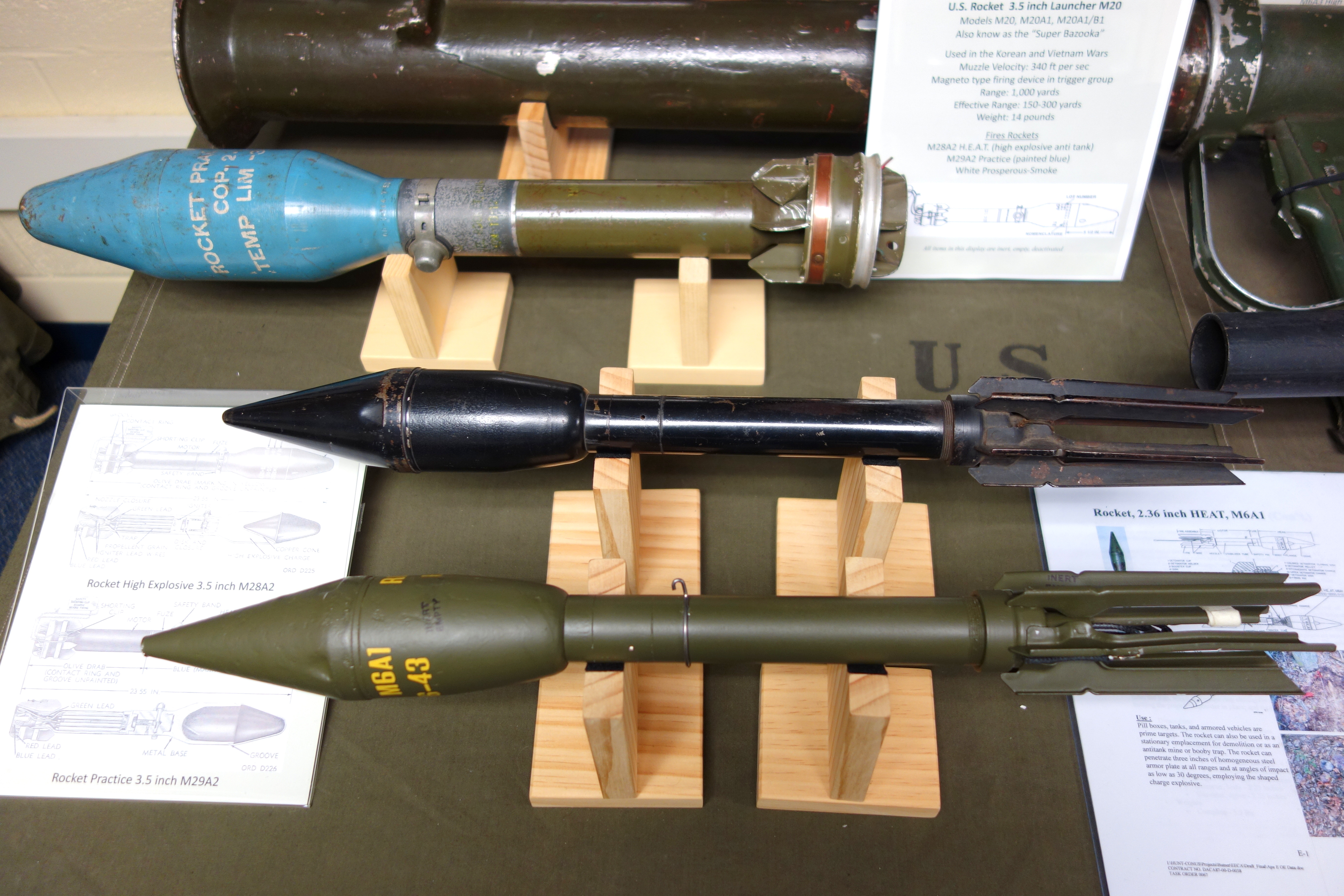 Exhibit in the Fort Devens Museum, 94 Jackson Road #305, Devens, Massachusetts, USA.